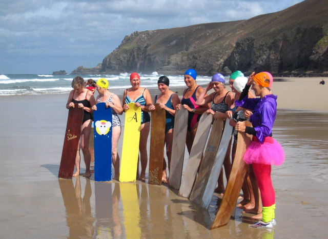 Bellyboardin in Chapel Porth beach, Cornwall